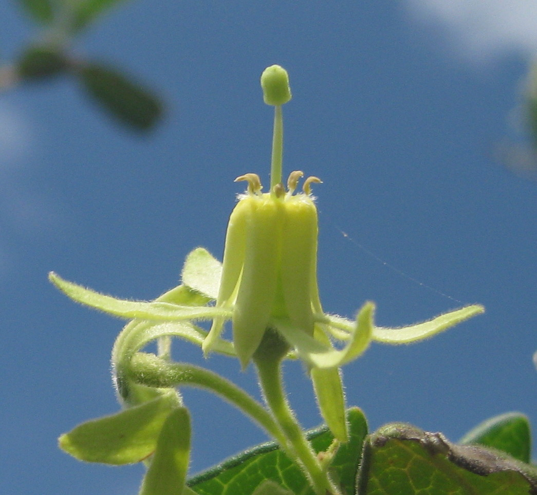 This tiny flower grows on a shrub in rocky hills close to Chimoio, Mozambique.